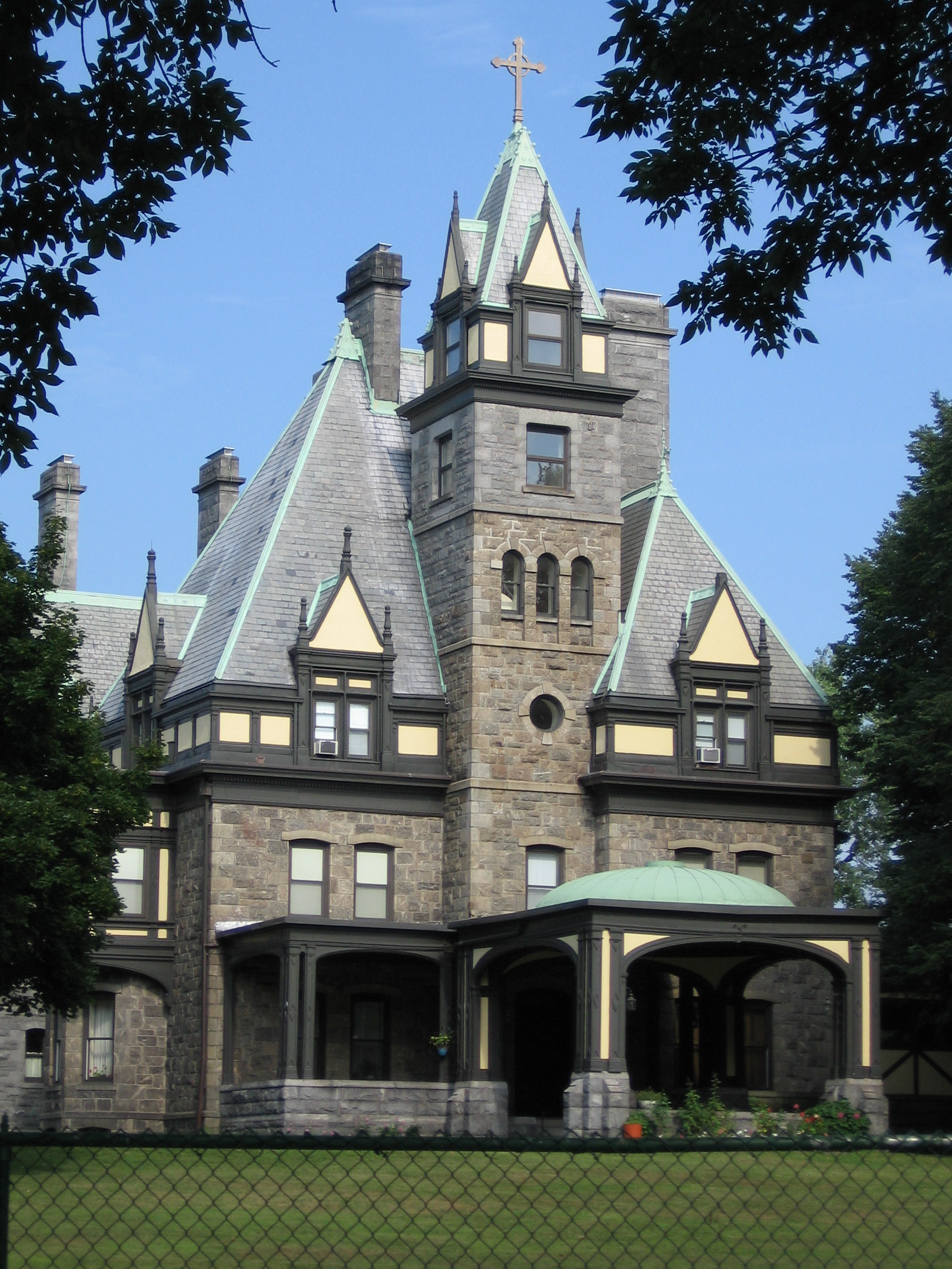 Building at St. Basil College Seminary, 161 Glenbrook Road, Glenbrook section of Stamford